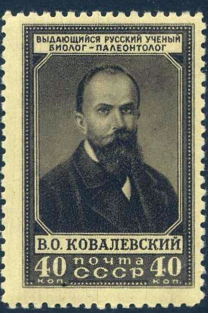 Vladimir Kovalevsky (paleontologist)